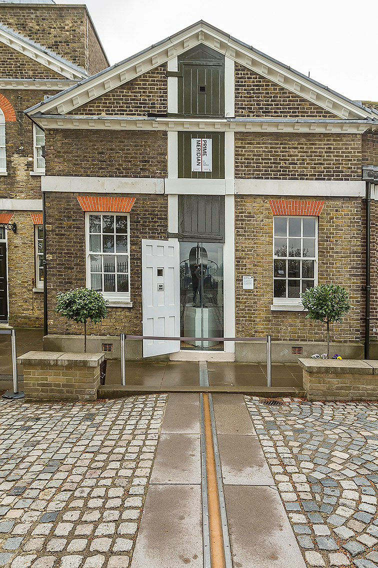 Greenwich, Prime Meridian,Flamsteed House